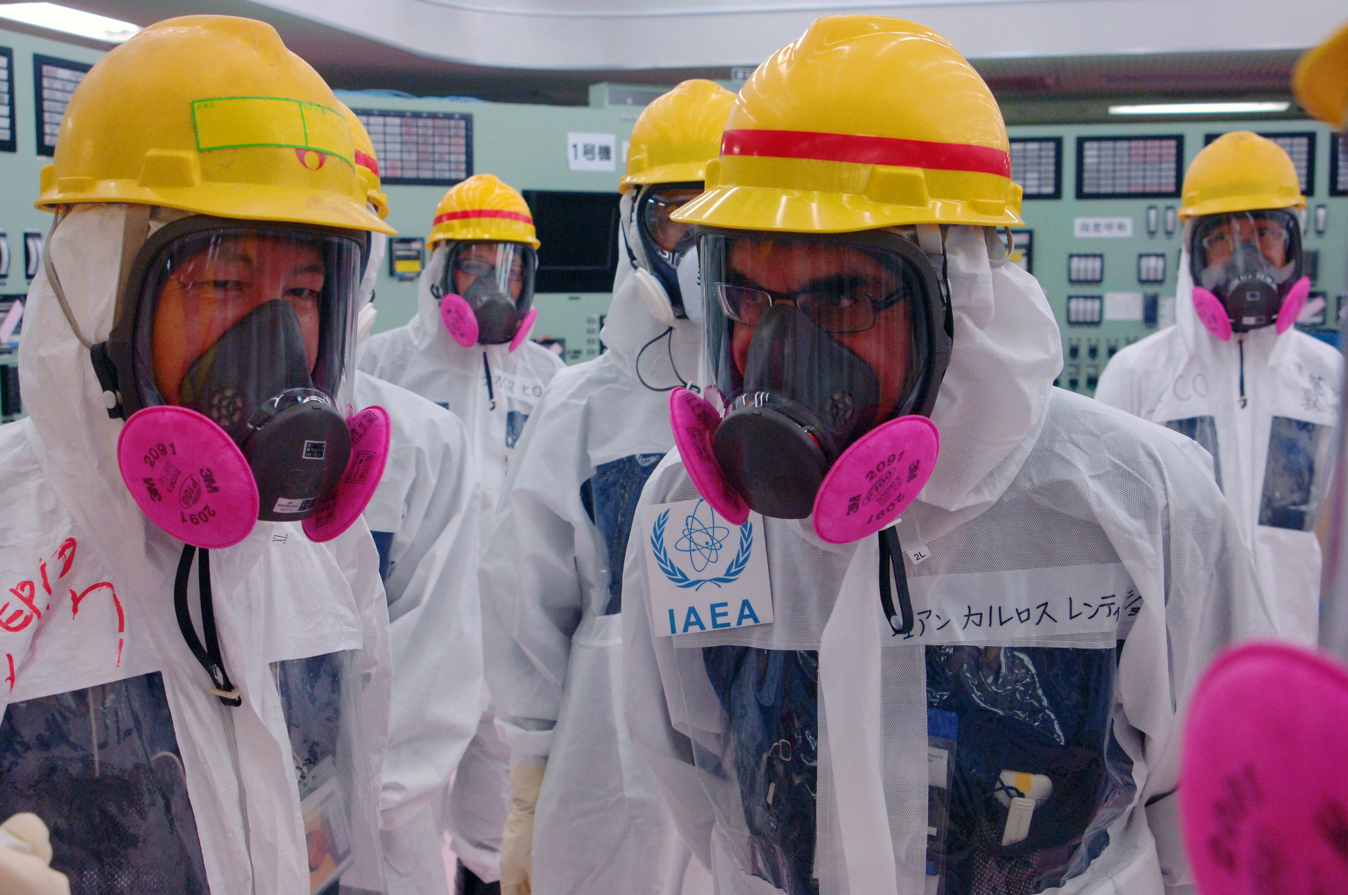 An IAEA expert team visited TEPCO's Fukushima Daiichi Nuclear Power Station on 17 April 2013 as part of a mission to review Japan's plans to decommission the facility. Team Leader Juan Carlos Lentijo (right), the IAEA's Director of Nuclear Fuel Cycle and Waste Technology, speaks with Shift Superintendent Ikuo Izawain inside the Control Room of Units 1 and 2. Photo Credit: Greg Webb / IAEA